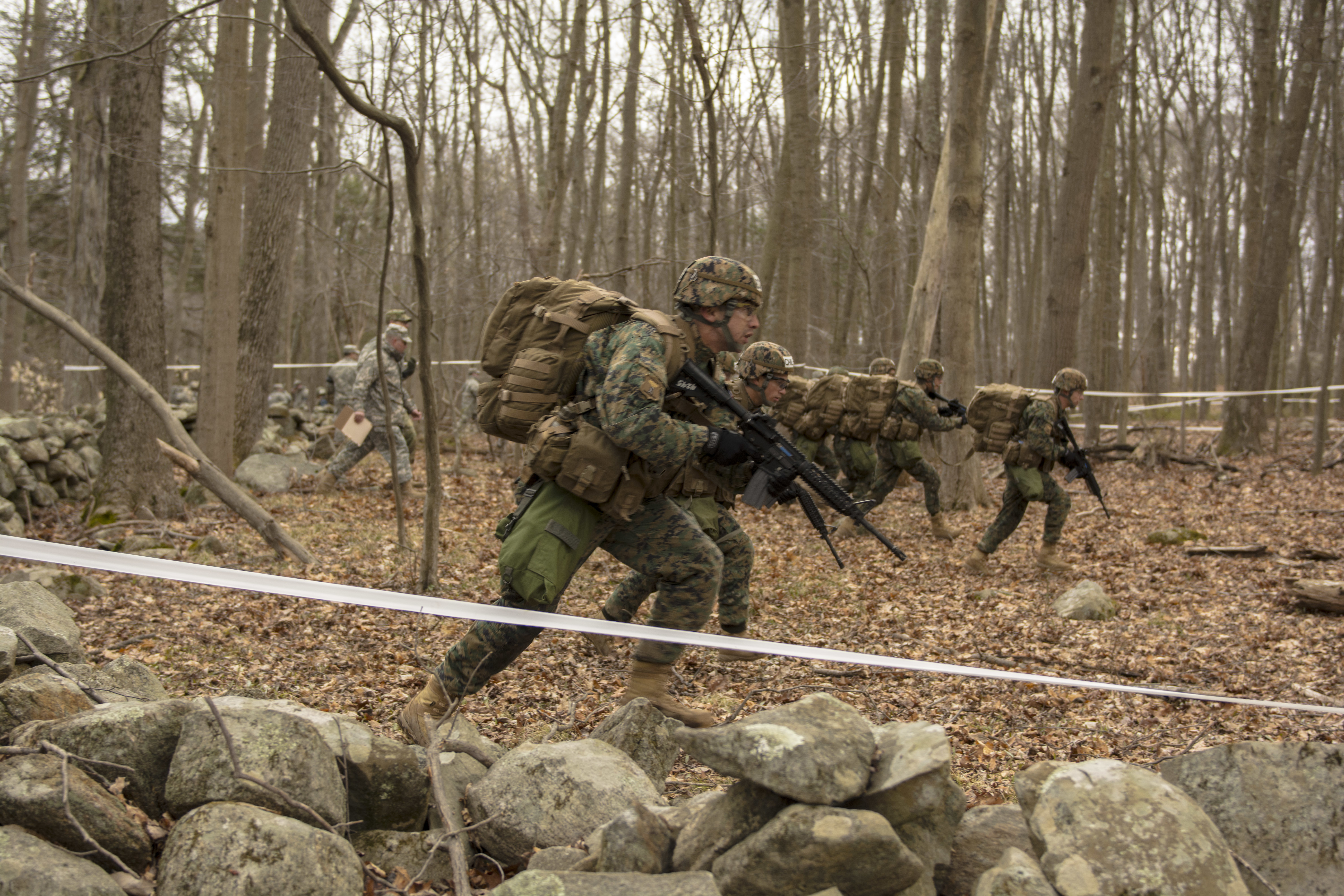 On the first day of competition, Cadets from the Turkish Military Academy react to direct contact during the 2016 Sandhurst competition held at the United States Military Academy at West Point, N.Y.